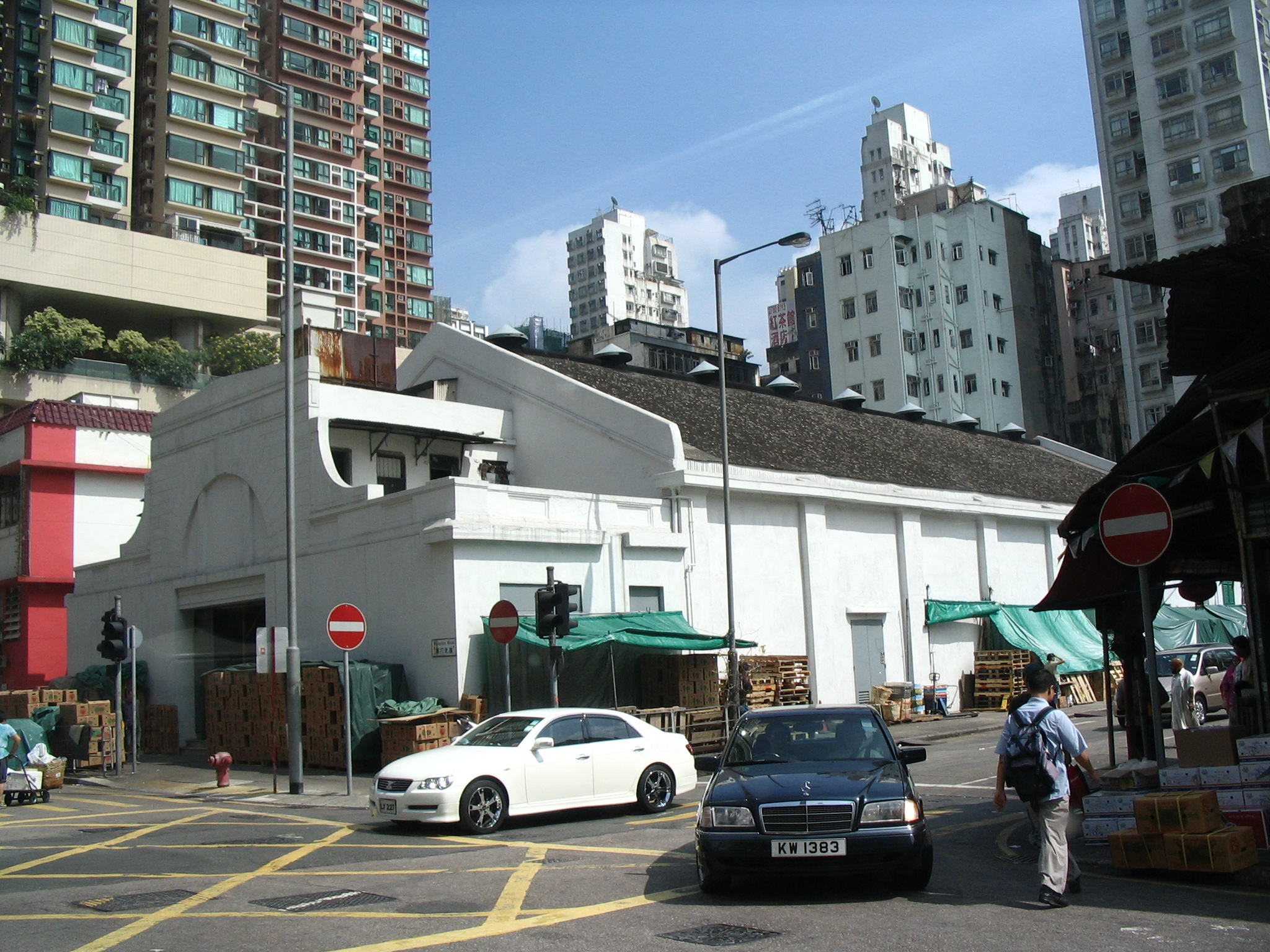 Photo of Yaumati Theatre